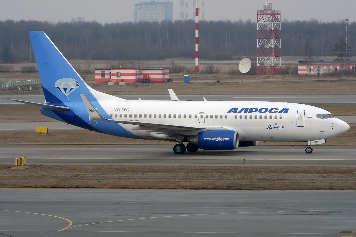 Alrosa Boeing 737-76Q at Pulkovo Airport